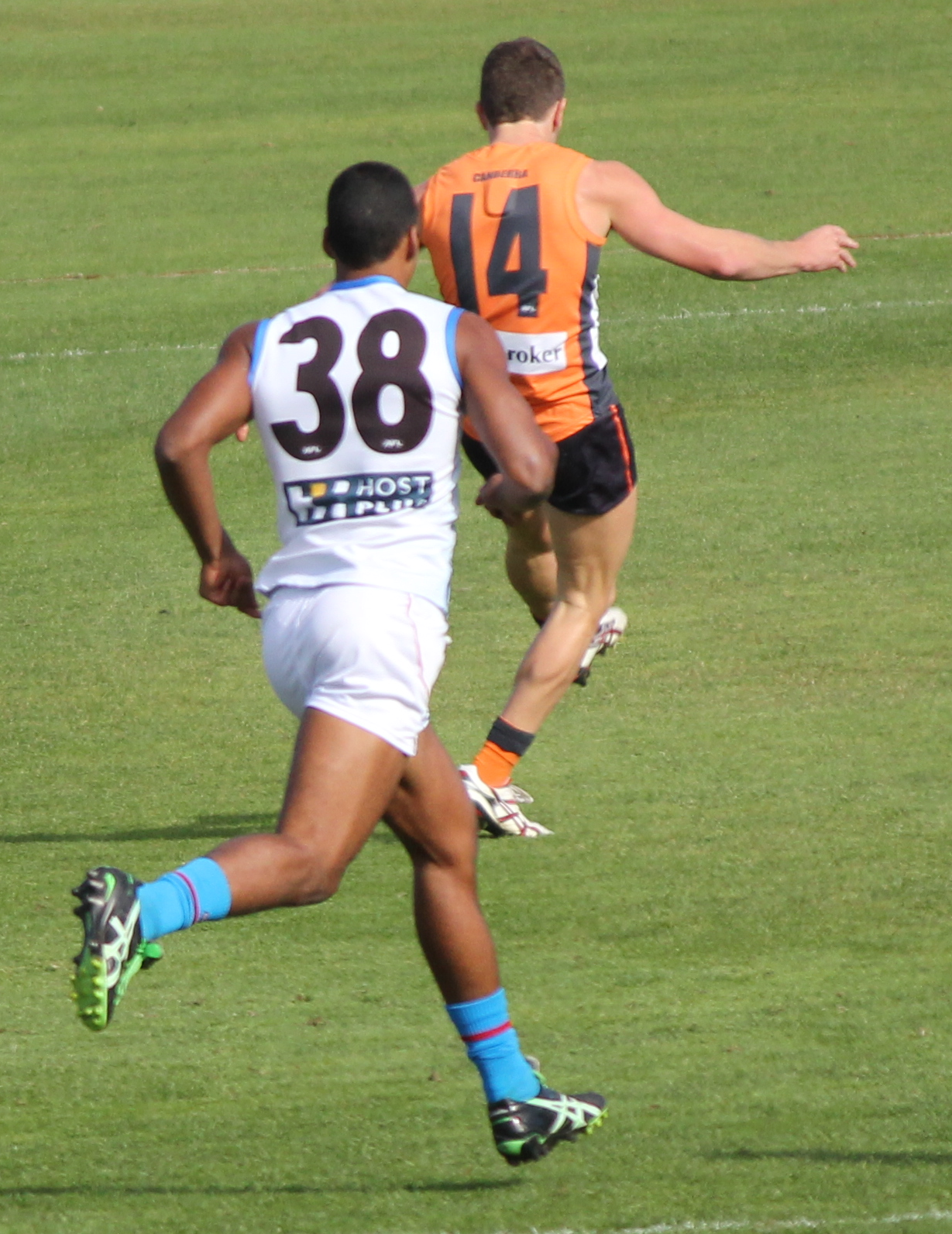 2012 Round 7. GWS Giants vs Gold Coast Suns. Manuka Oval.